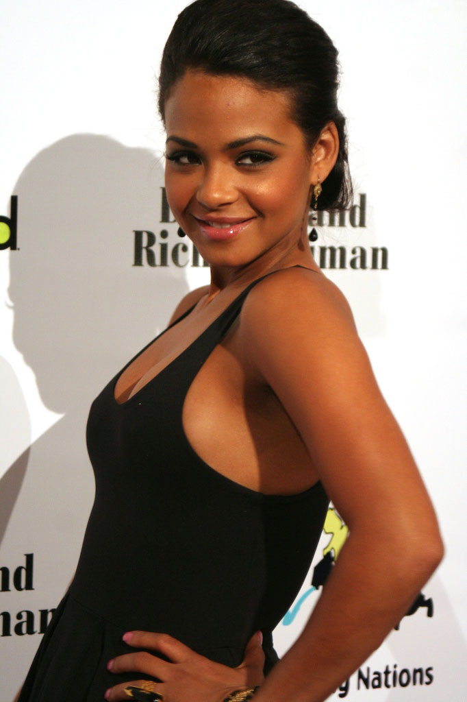 Christina Milian at the Billboard-Children Uniting Nations after-party red carpet.